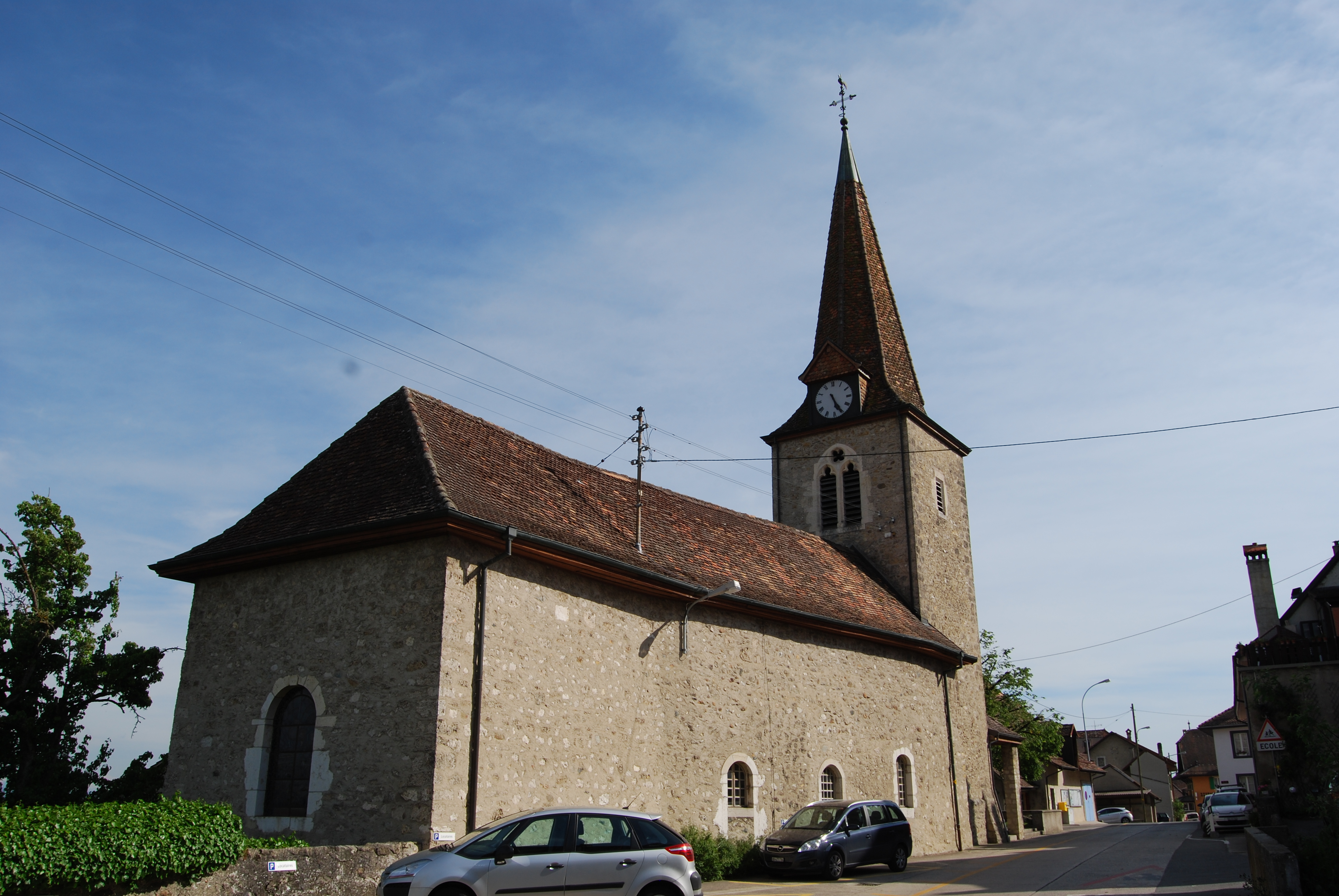 Church of Rances, canton of Vaud, Switzerland